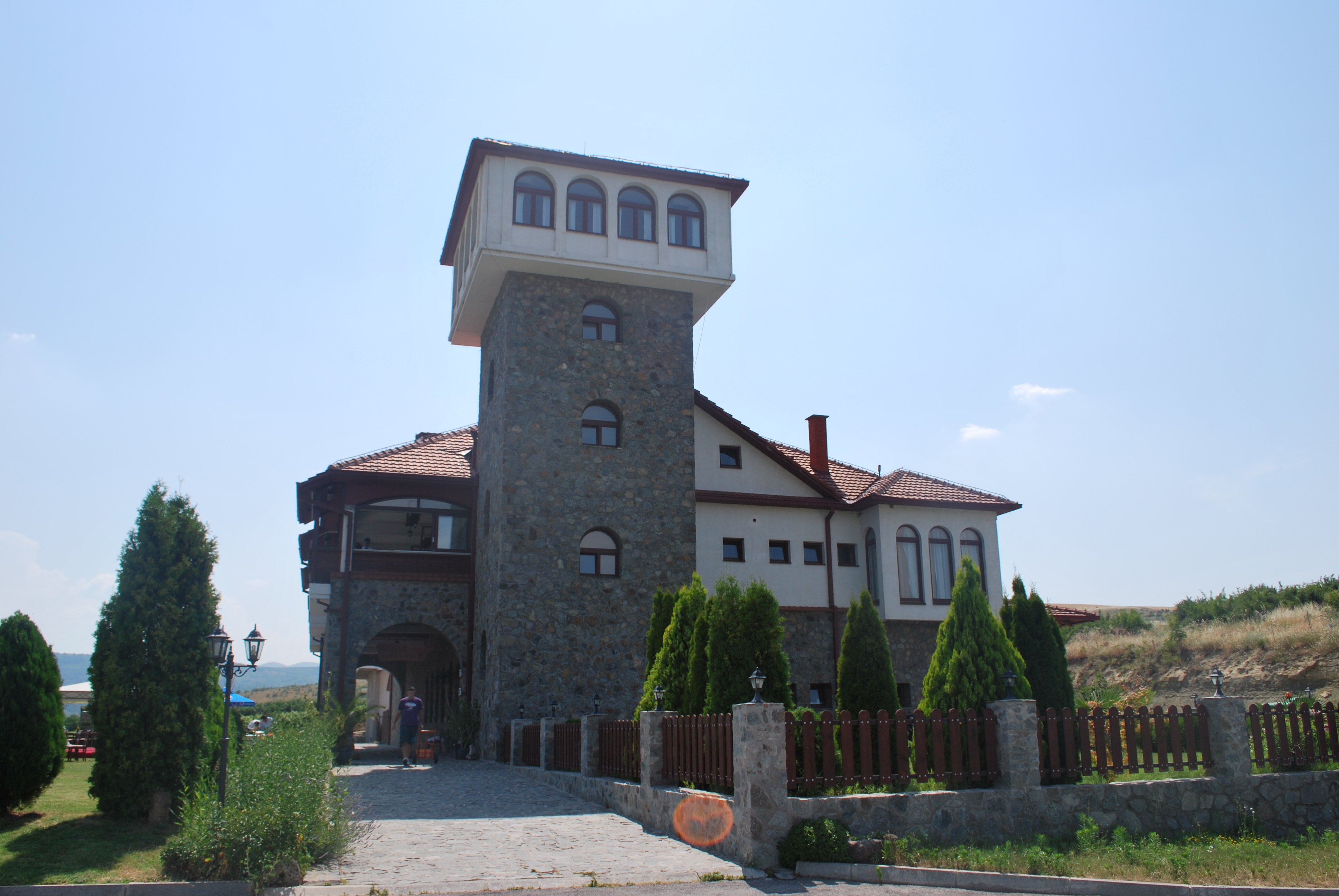 Popova Kula - Winery, Restaurant and Hotel in Demir Kapija, Macedonia